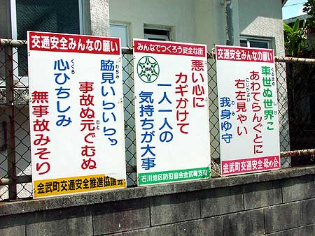 Traffic safety slogan signs in Kin, Okinawa. The board at center is in Japanese, while those at right and left are in Okinawan. Left billboard reads: 「脇見いらいらや事故ぬ元でむぬ 心ひちしみて無事故みそり」